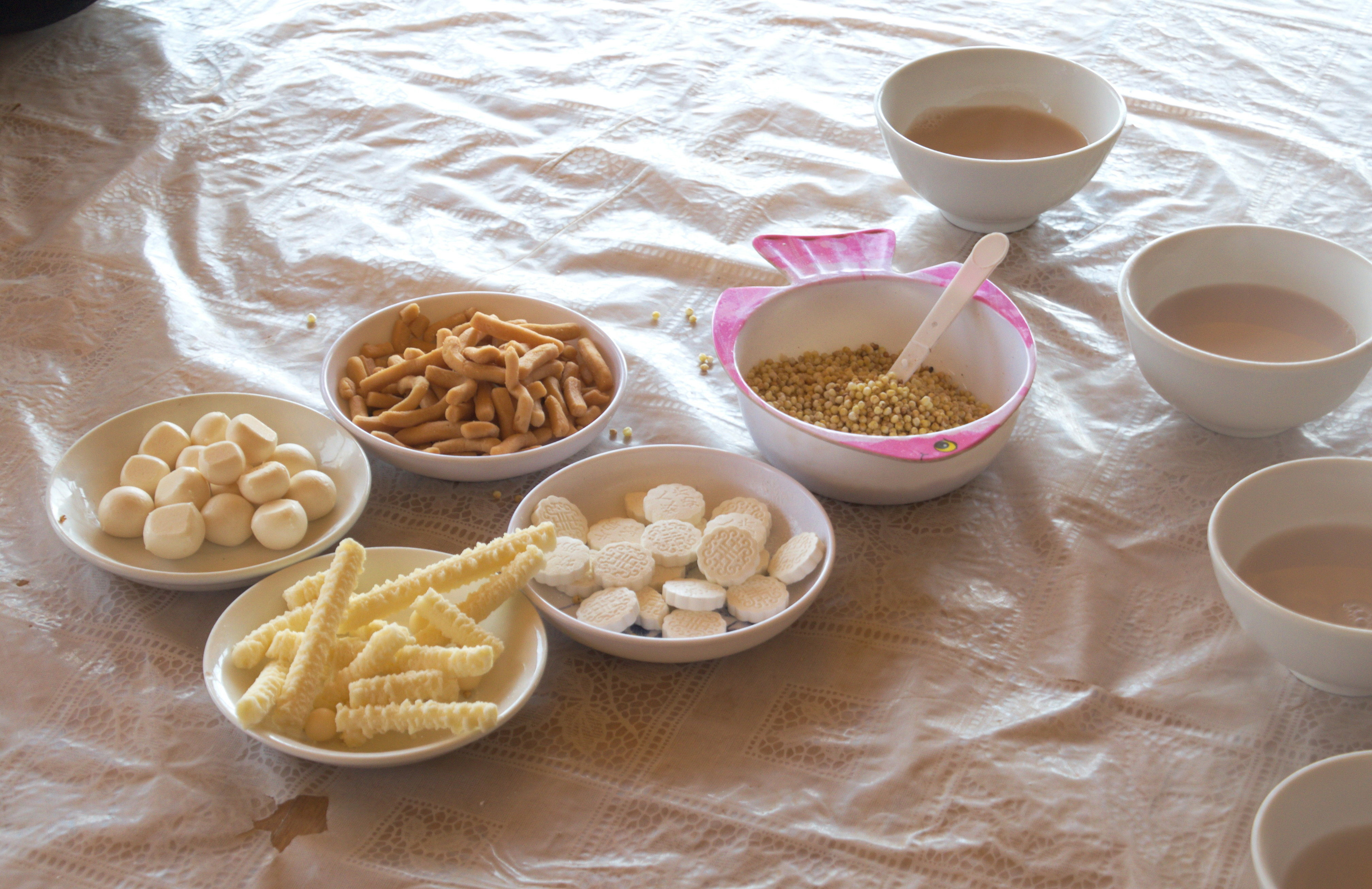 Süütei tsai (ᠰᠦᠨ ᠲᠡᠢ ᠴᠠᠢ/сүүтэй цай, mongolian milk tea with fried millet) and yogurt/cheese candies (aaruul, mongolian writting : ᠠᠭᠠᠷᠤᠤᠯ, cyrillic: ааруул) as servered in grassland at North of Khökhkhot. The four rightest bowl contains milk tea. the pink fish shaped bowl at the right contains fried millet that is to be added in the milk tea.